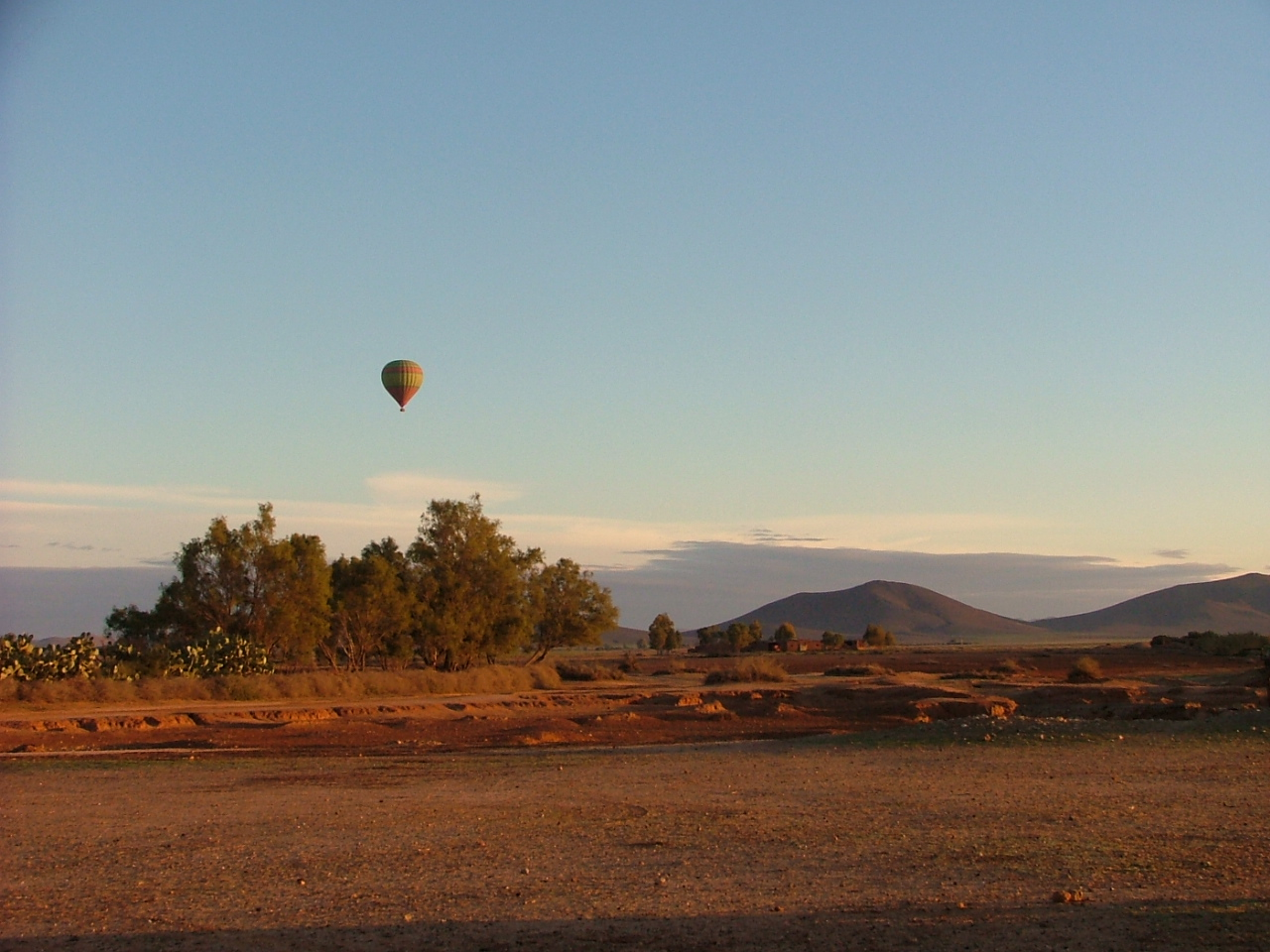 Morocco is a marvellous country. A hot air balloon is the perfect way to discover the country’s hidden secrets and warm, welcoming inhabitants.Ciel d'Afrique